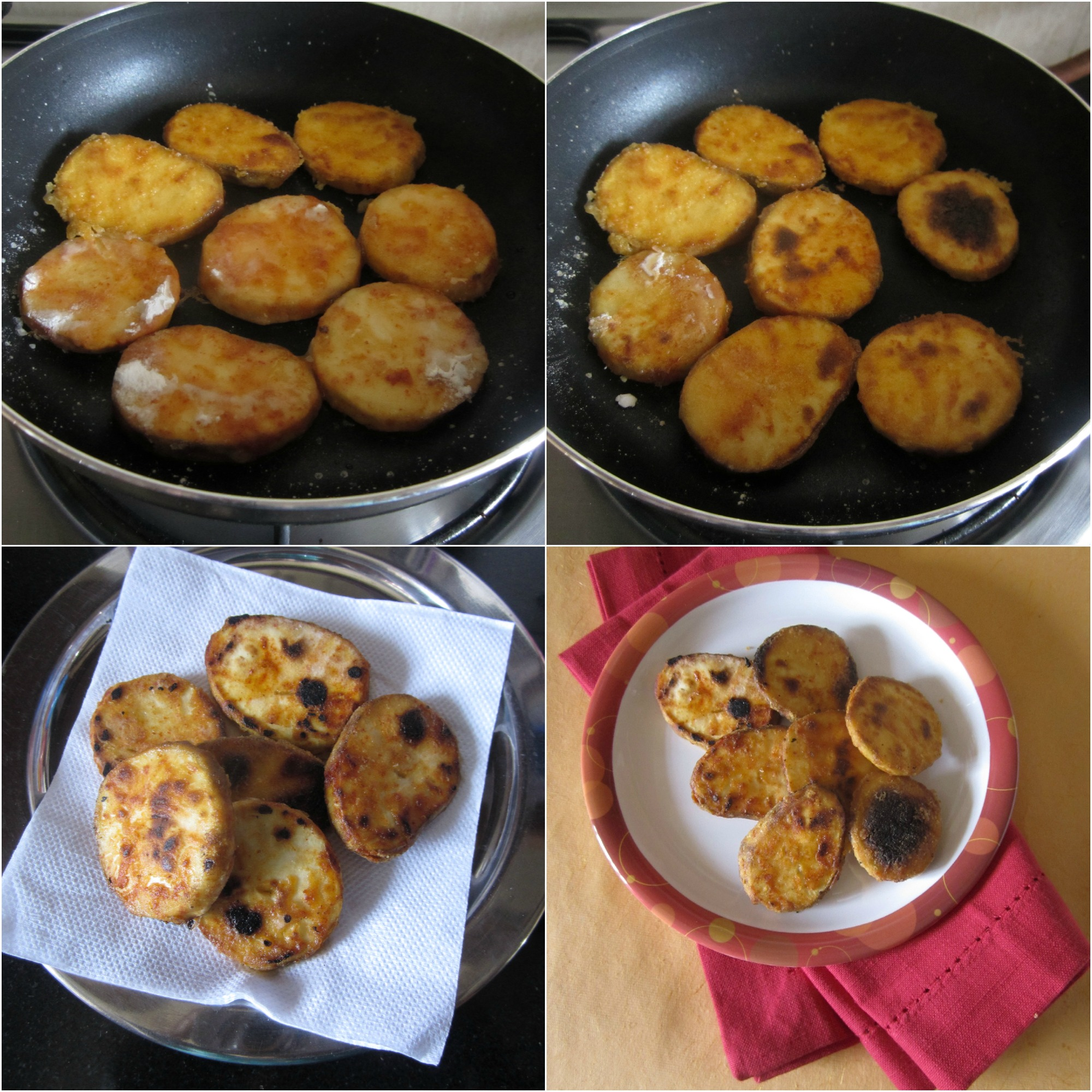 Kananga phodi Sweet potato, lightly battered and pan fried